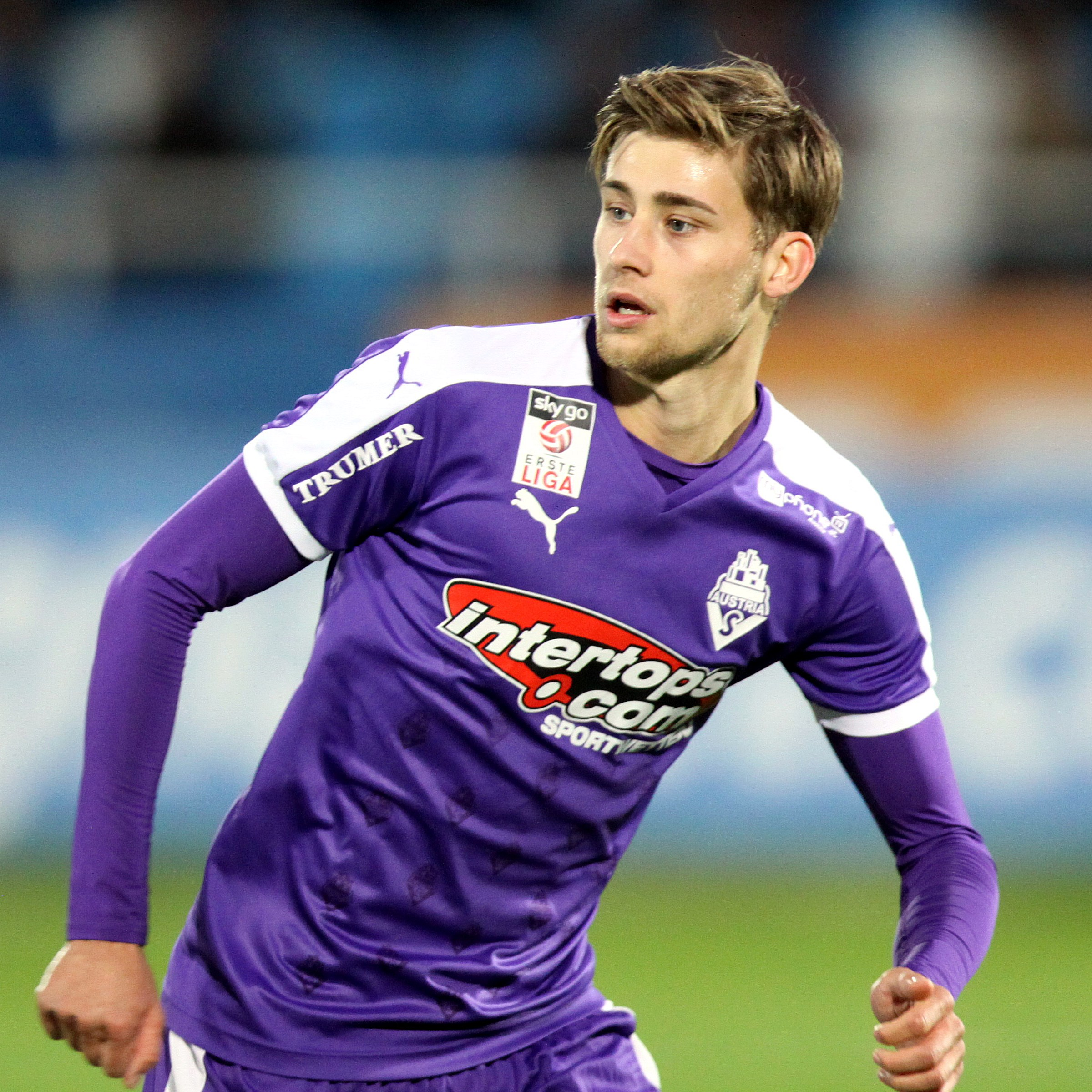 Match of the Erste Liga – SC Wiener Neustadt (blue/white shirts) vs. SV Austria Salzburg (purple shirts and black/white shirts) 2–0 (1–0) on 2015-10-02 in the Stadion in Wiener Neustadt – The photo shows Felix Huspek.